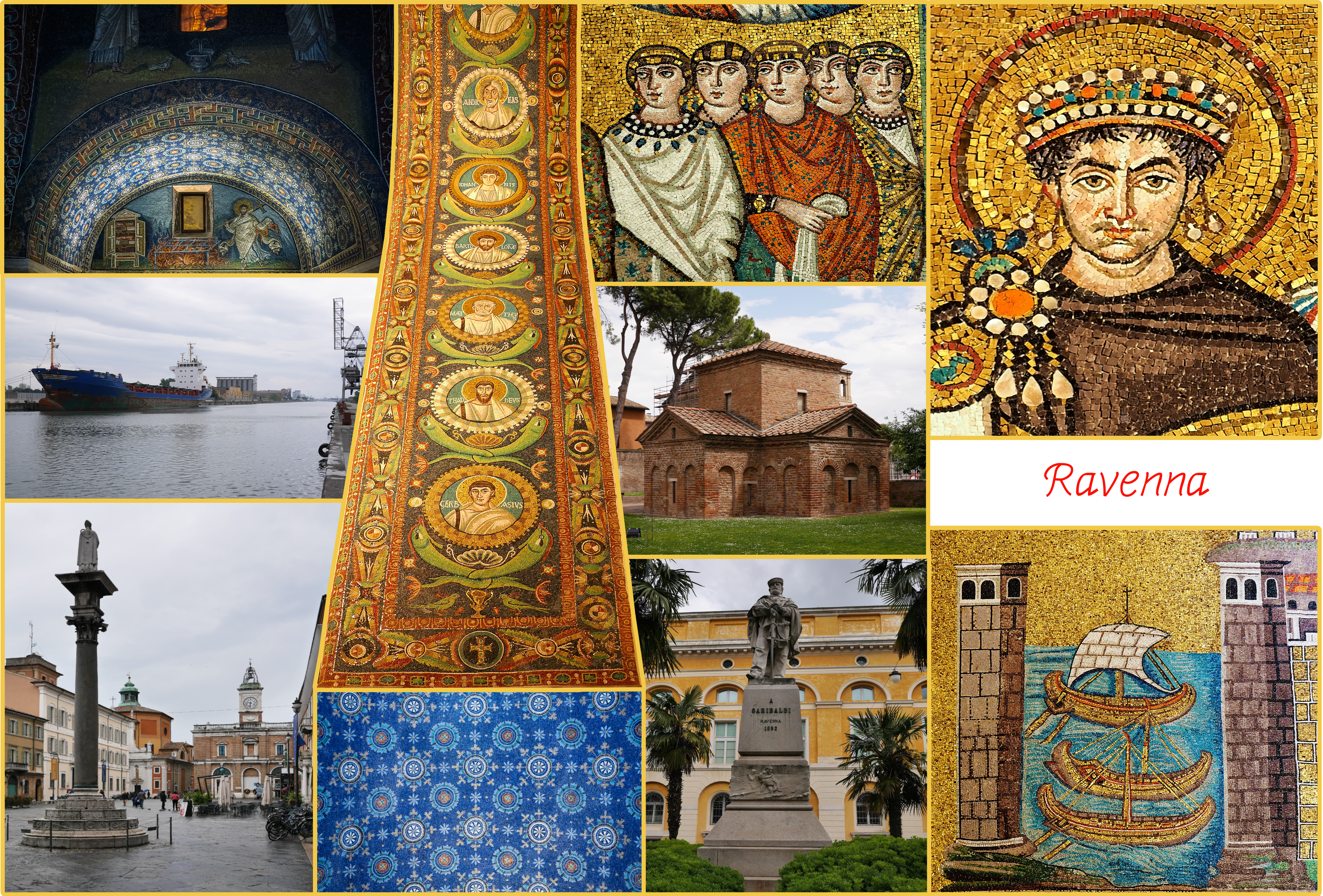 Collage of Ravenna , Italy.